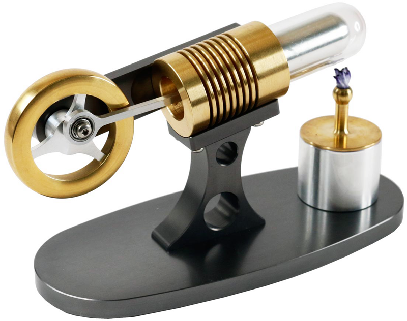 Manson Guise engine with burner